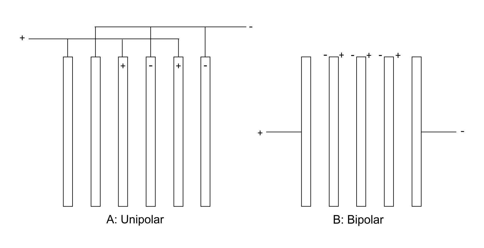 Schematic of types of electrodes ordering in a salt electrolysis reactor